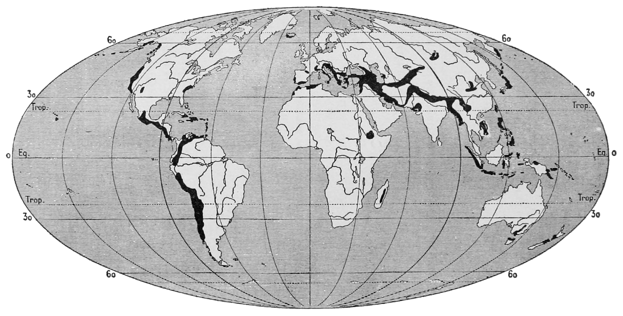 Earthquake Regions, After Montessus de Ballore, Tremblements de Terre, Librarie Armand Colin, Paris